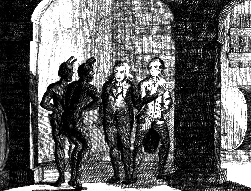 Illustration of Carl Goldini's libretto for the opera La diavolessa, composed by Baldassare Galuppi